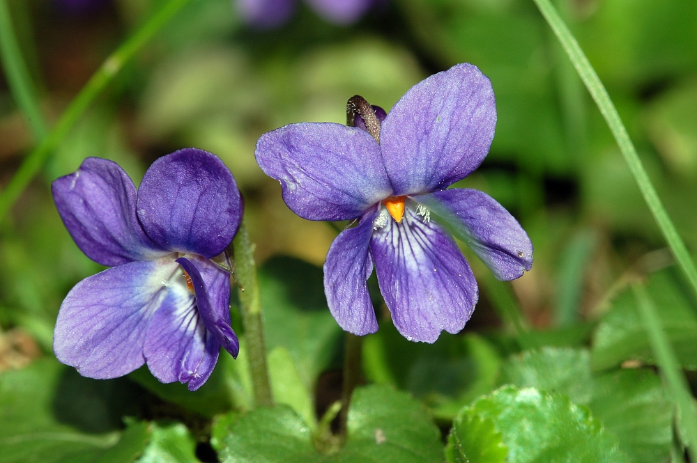 Viola odorata, Nied, Frankfurt/Main on pear, Germany